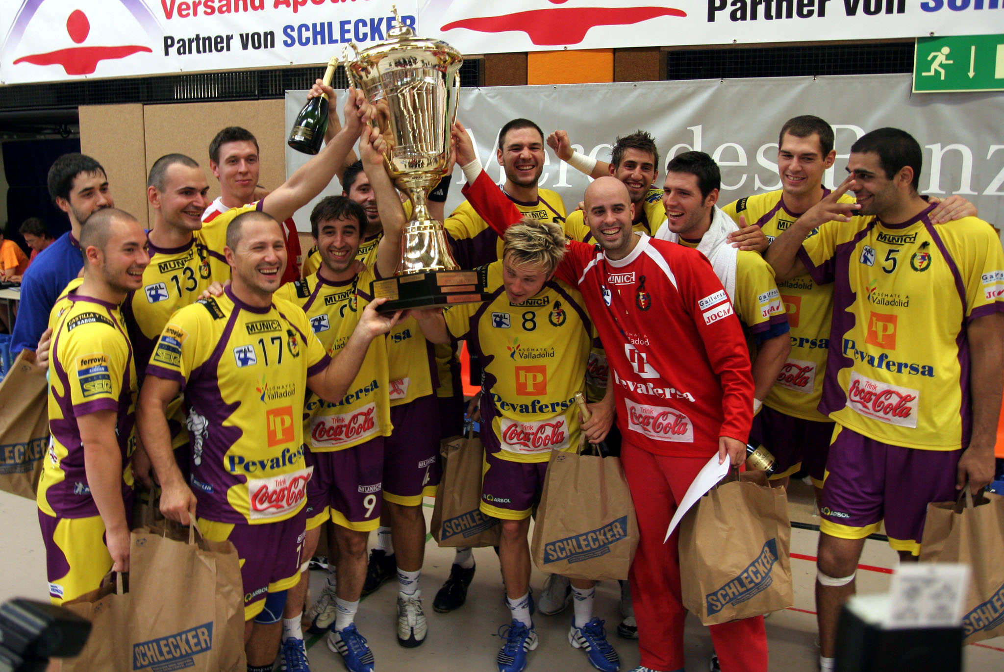 The team of BM Valladolid, on August 31st, 2008 in Ehingen prior a game for the Schlecker Cup 2008